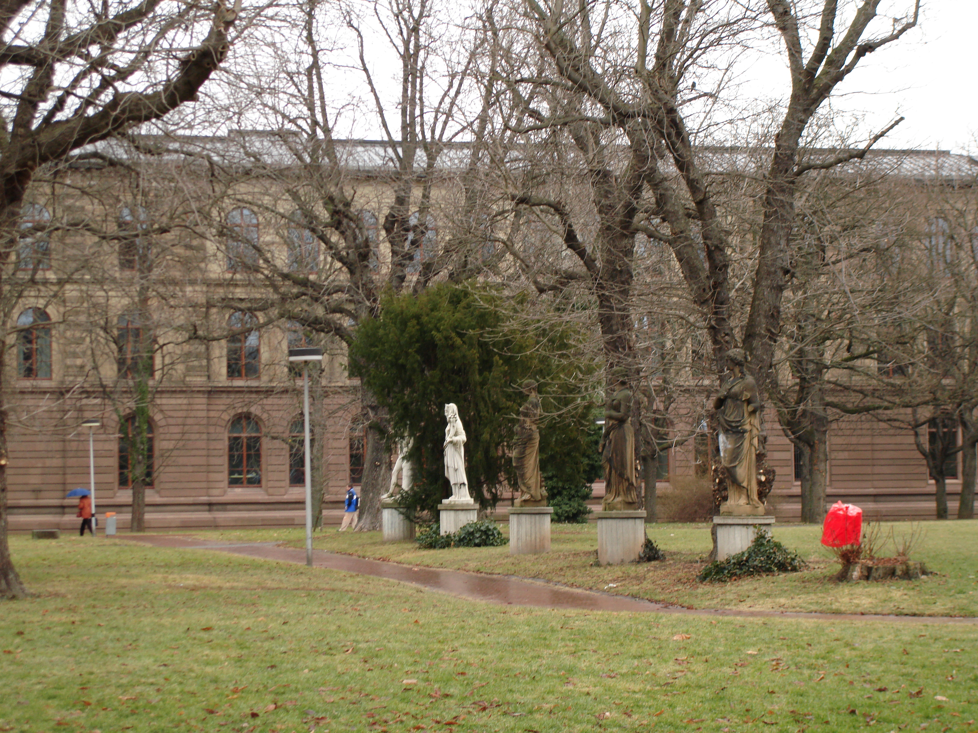 University Stuttgart